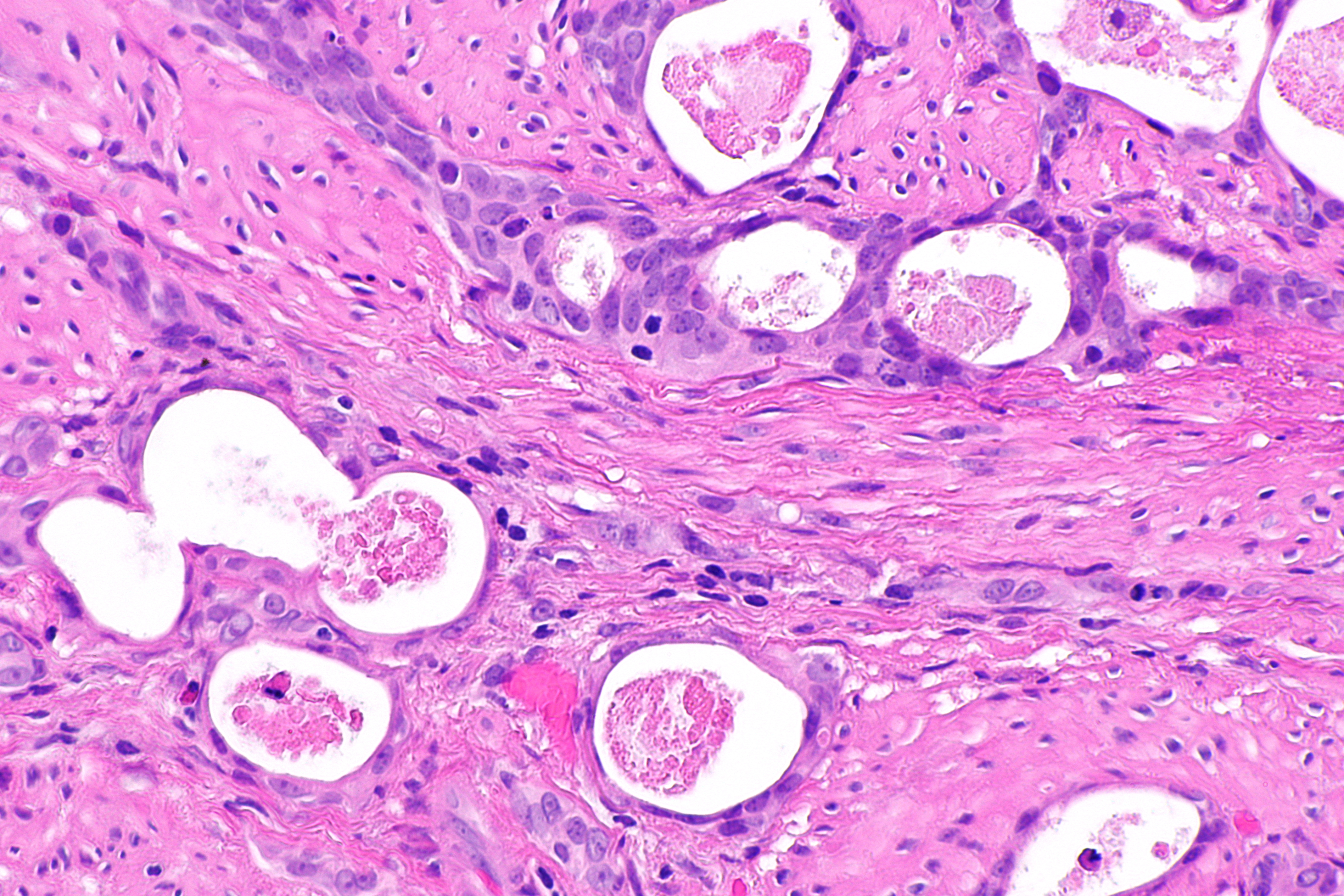 Micrograph showing urothelial carcinoma, microcystic variant. H&E stain. Related images UCCMV - low mag. UCCMV - low mag. UCCMV - intermed. mag. UCCMV - high mag. UCCMV - very high mag. UCCMV - intermed. mag. UCCMV - intermed. mag. UCCMV - high mag.